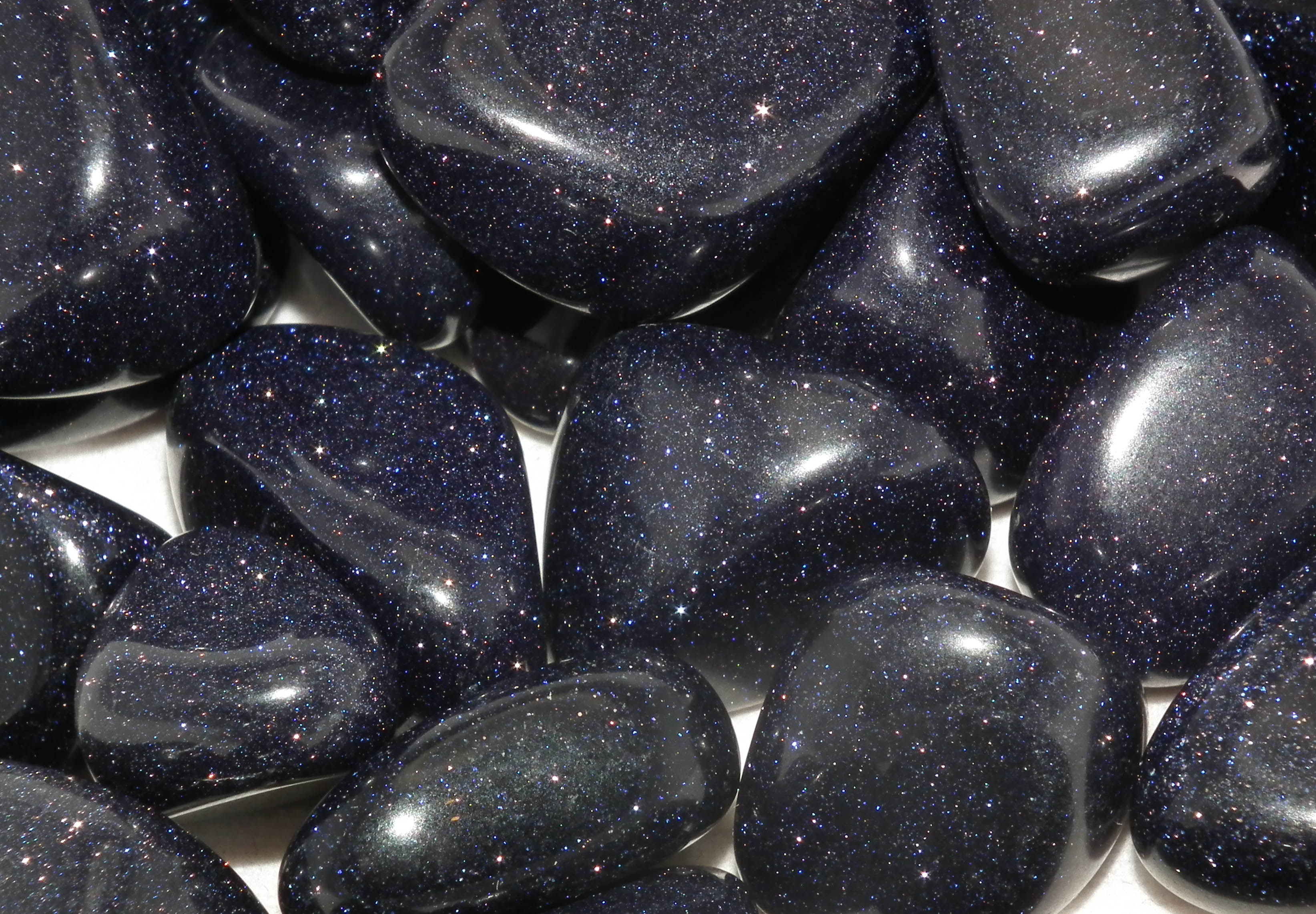 20-30MM pieces of tumble polished Blue Goldstone - also sometimes known as 'Aventurine Glass'. Tumble polished stones are also known as 'tumblestones'.